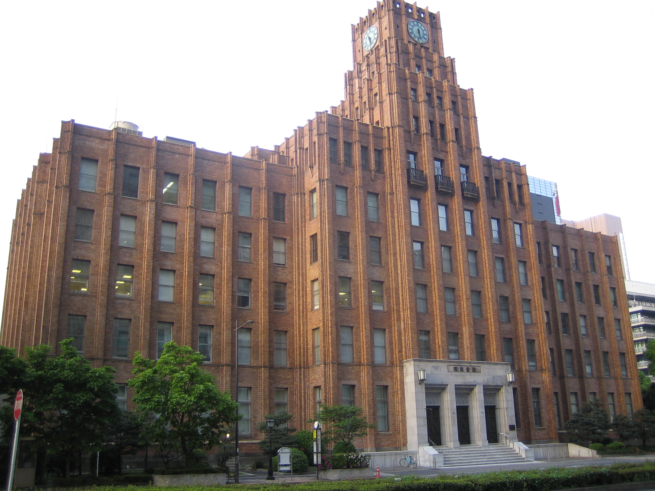 Municipal Research Building (市政会館 Shisei Kaikan), at Hibiya, Chiyoda, Tokyo, Japan